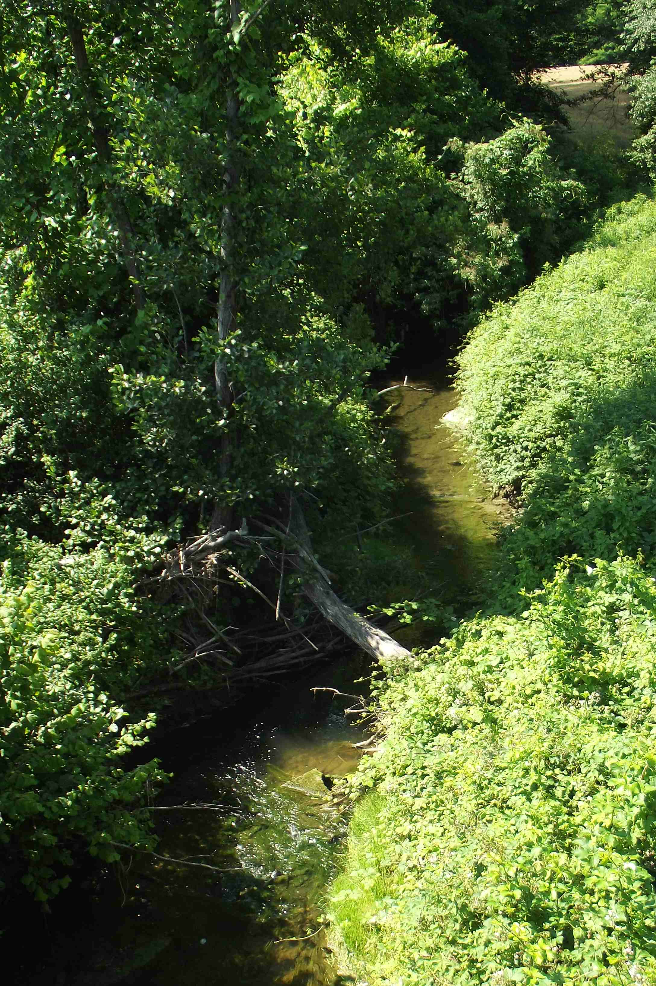 Rio di Monale nearby Cortandone (AT, Italy)